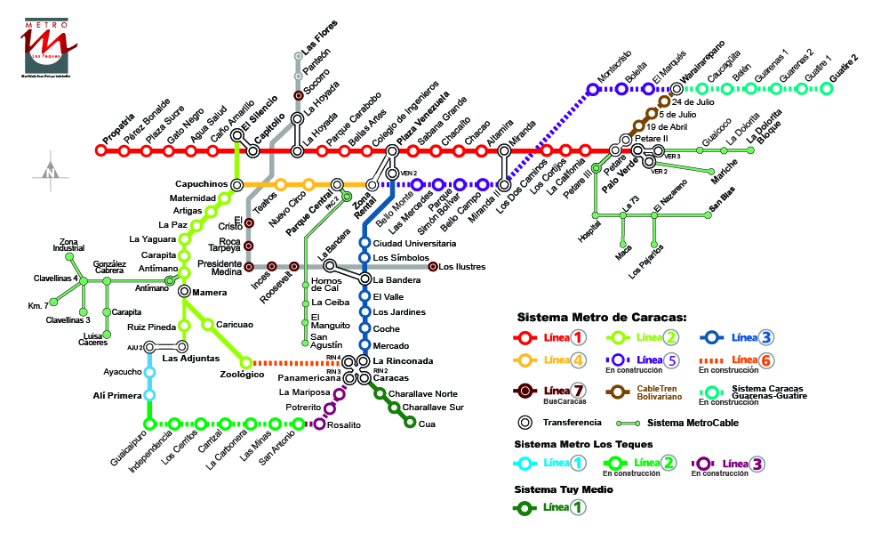 New route map of Caracas-Los Teques Metro